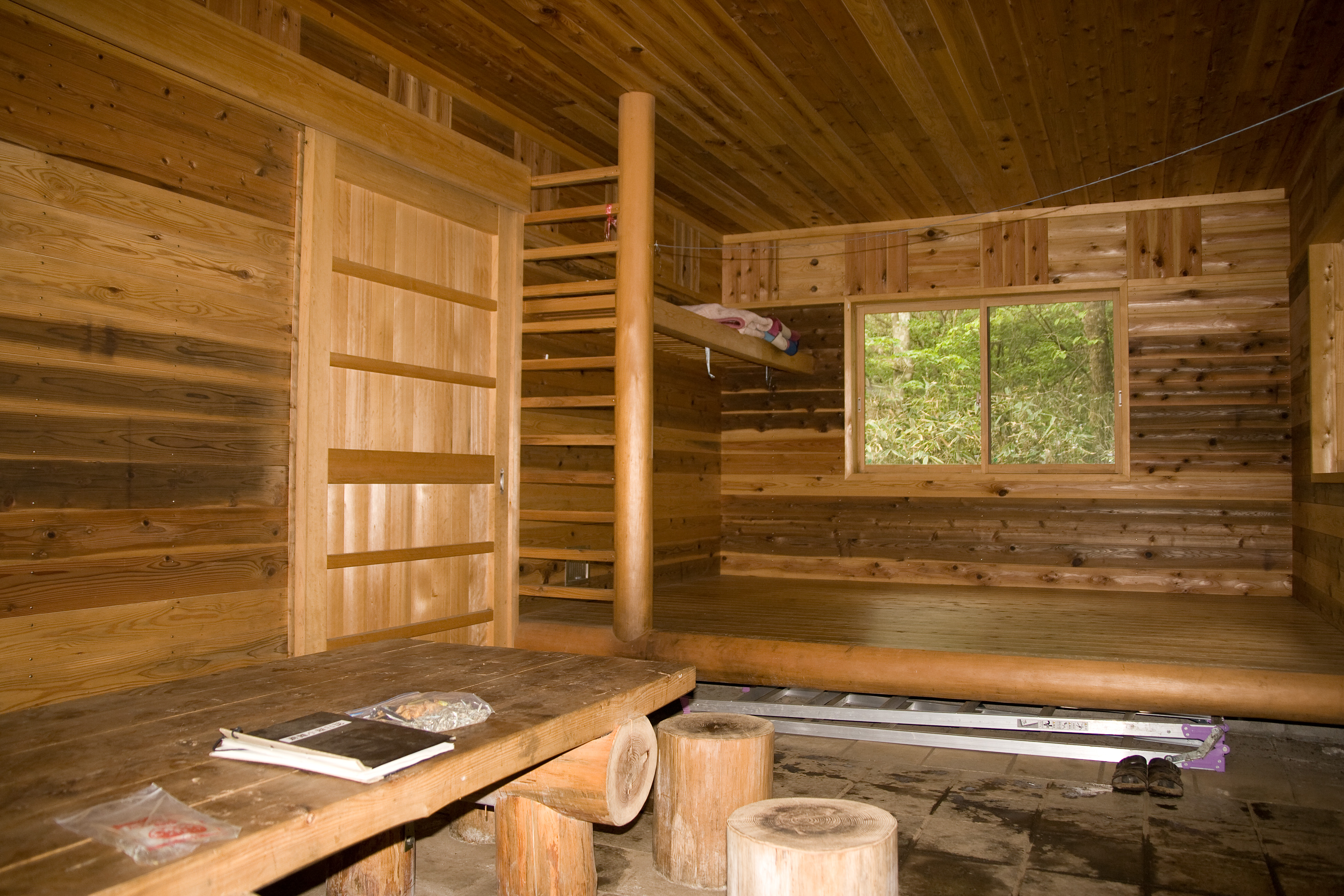 Interior of Komotsurushi hinangoya ("Komotsurushi shelter hut") in the Tanzawa Mountains, Japan